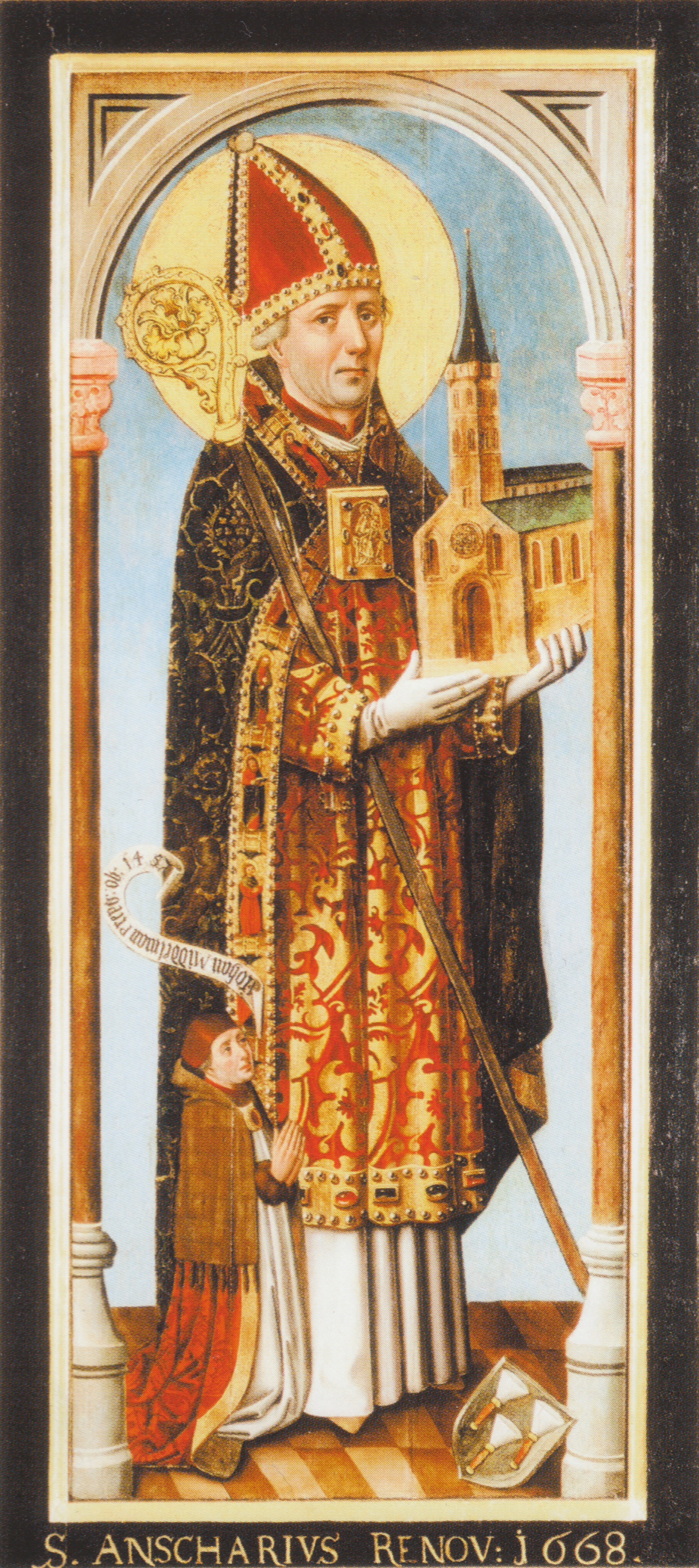 Depicted person: Ansgar – saint, Archbishop of Hamburg-Bremen